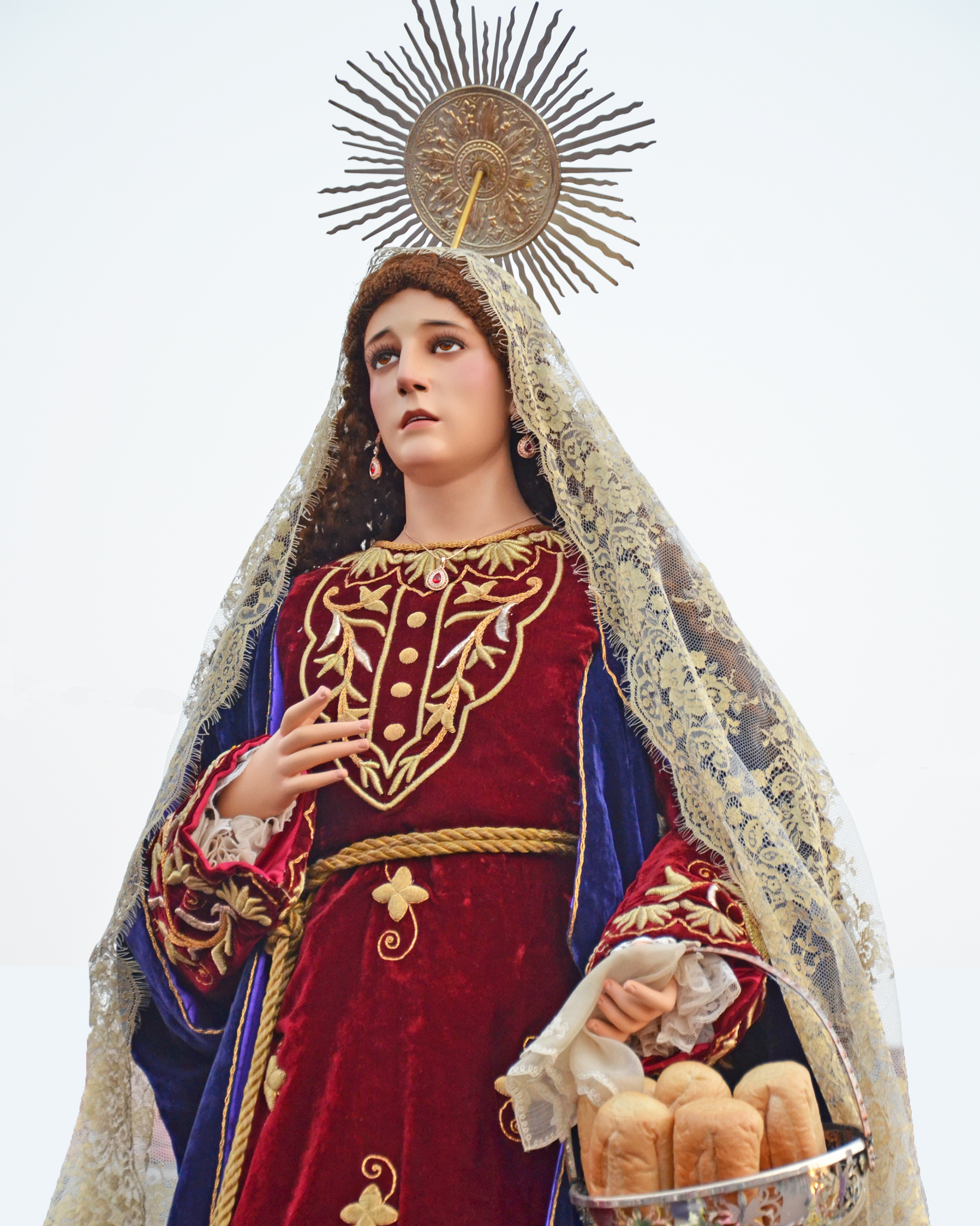 Statue of Saint Martha used in Holy Week Processions at the National Shrine and Parish of Saint Anne in Hagonoy, Bulacan, Philippines Filipino: Imahe ni Santa Marta na ginagamit sa prusisyon tuwing Mahal na Araw sa Pambansang Dambana at Parokya ni Santa Ana sa Hagonoy, Bulacan, Philippines